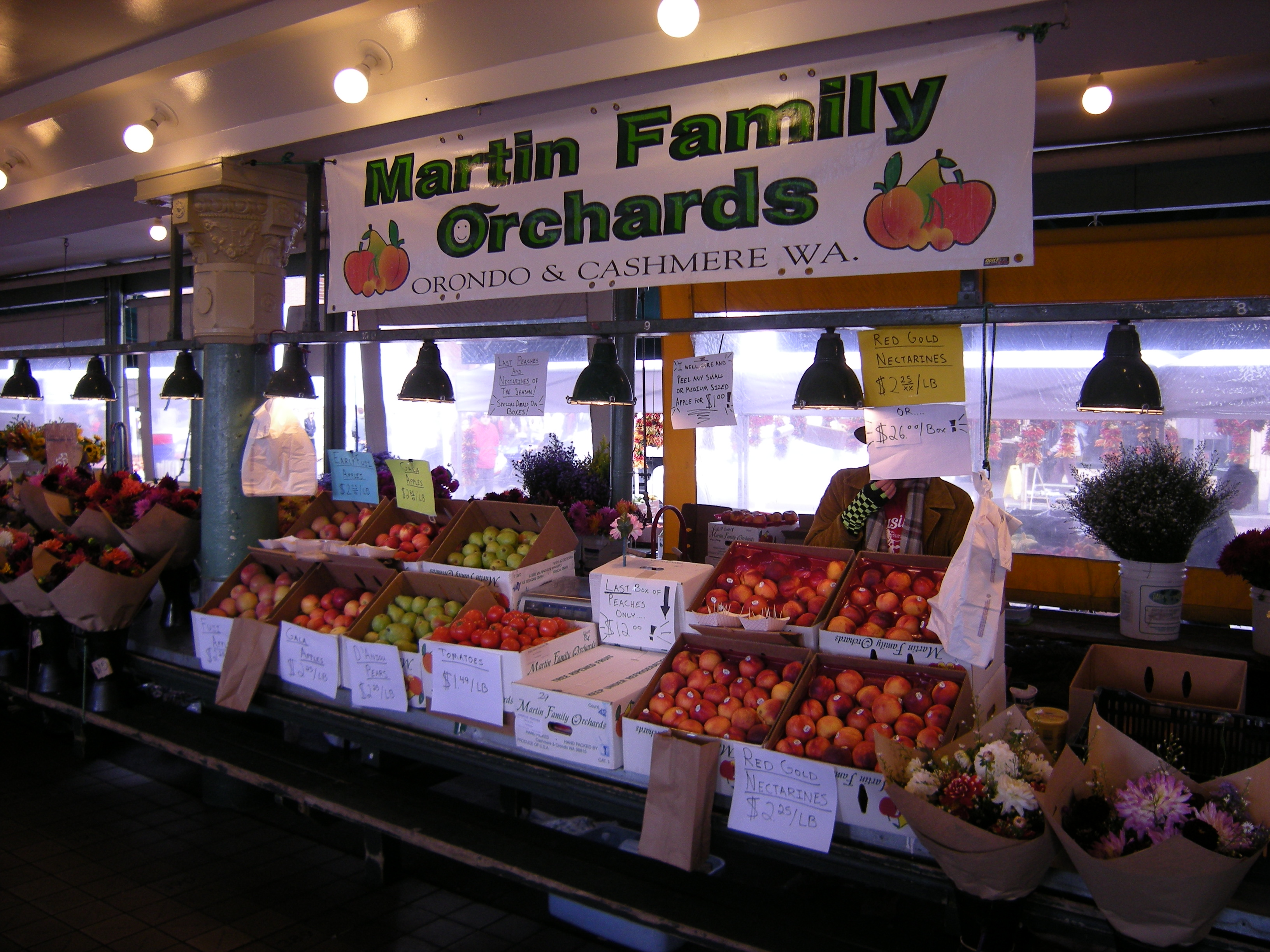 Apples for sale at a farmer's daystall in the North Arcade of Pike Place Market, Seattle, Washington.